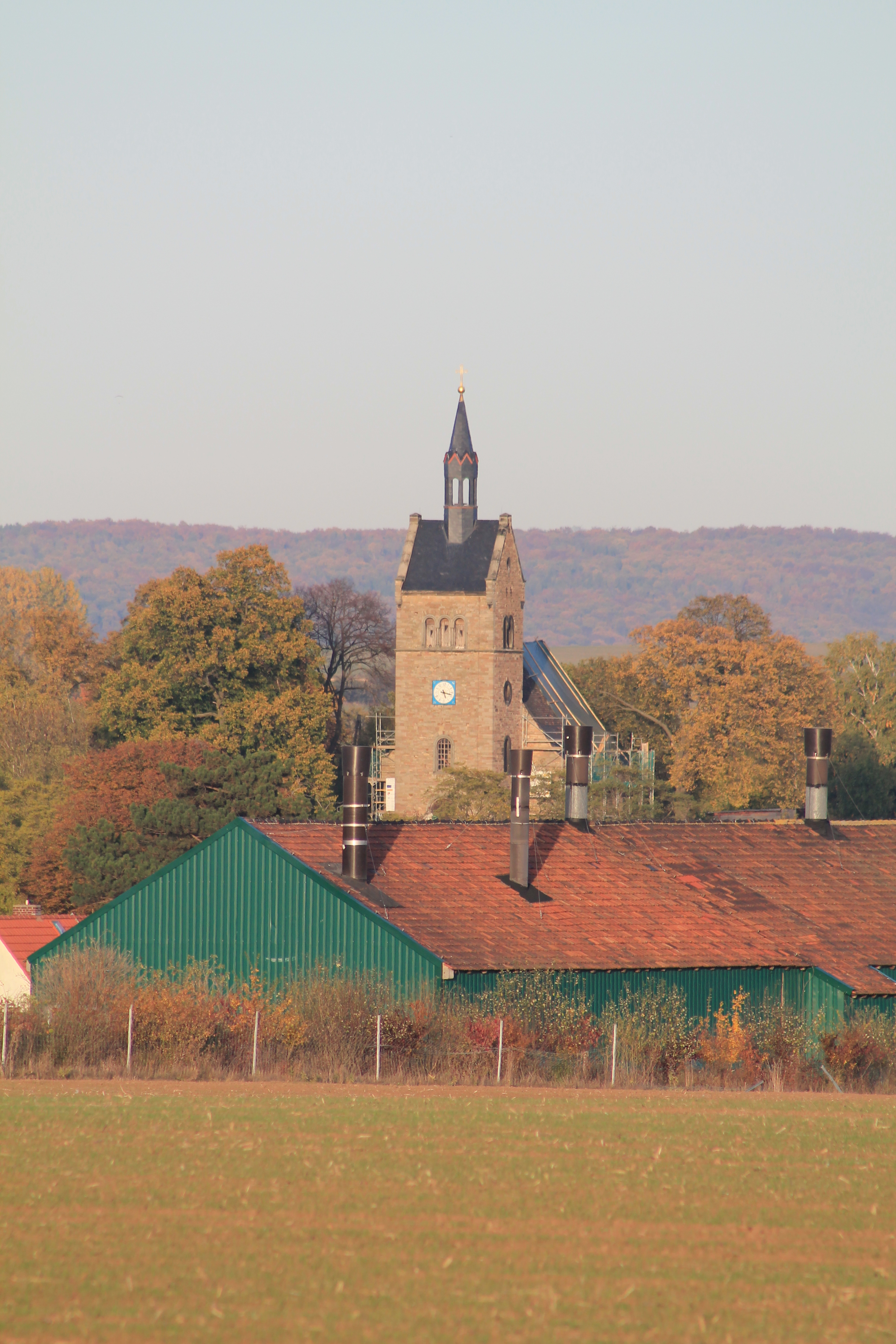 Church of Nienstedt, municipality of Allstedt, Saxony-Anhalt, Germany.